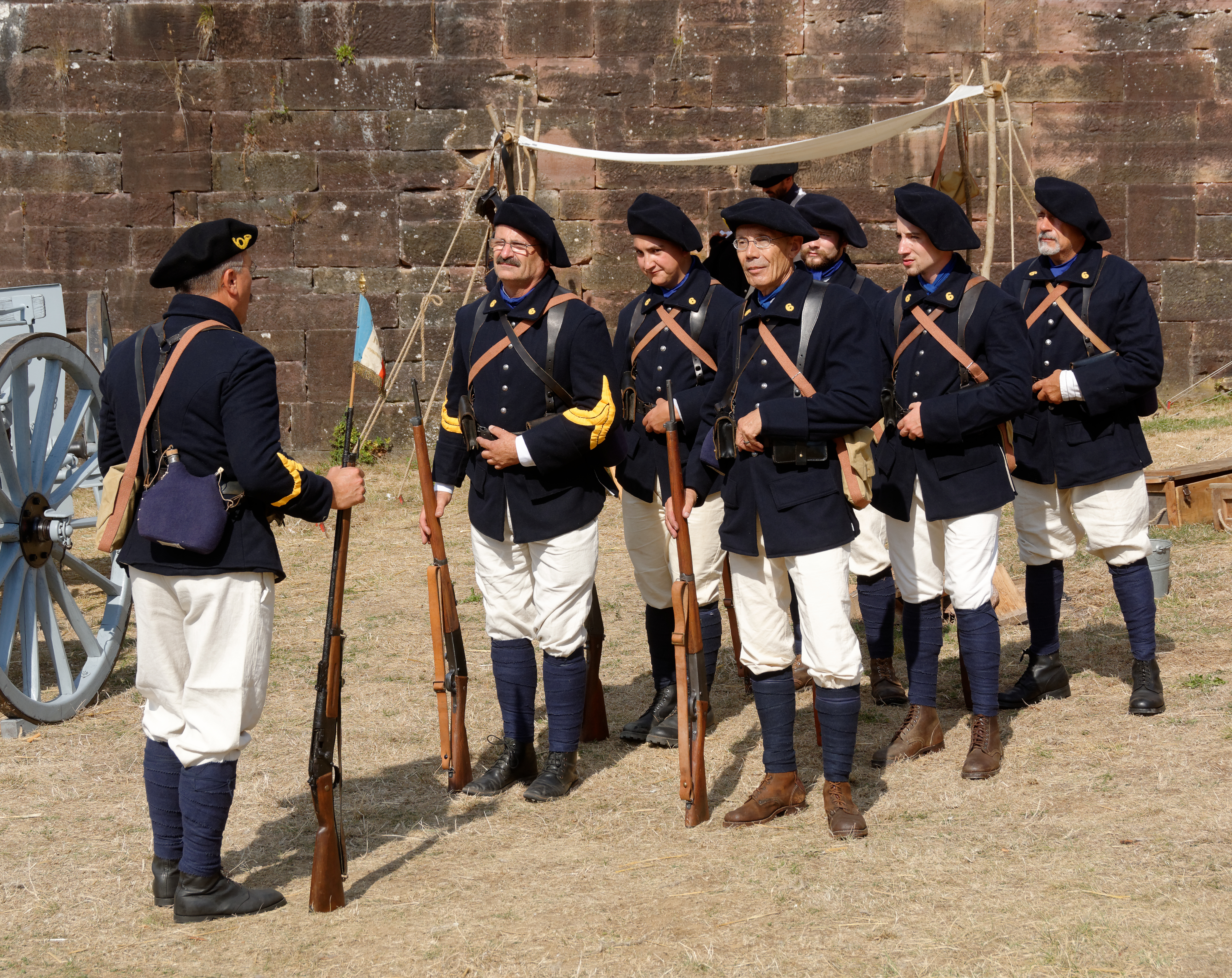 Personality rights warningAlthough this work is freely licensed or in the public domain, the person(s) shown may have rights that legally restrict certain re-uses unless those depicted consent to such uses. In these cases, a model release or other evidence of consent could protect you from infringement claims.